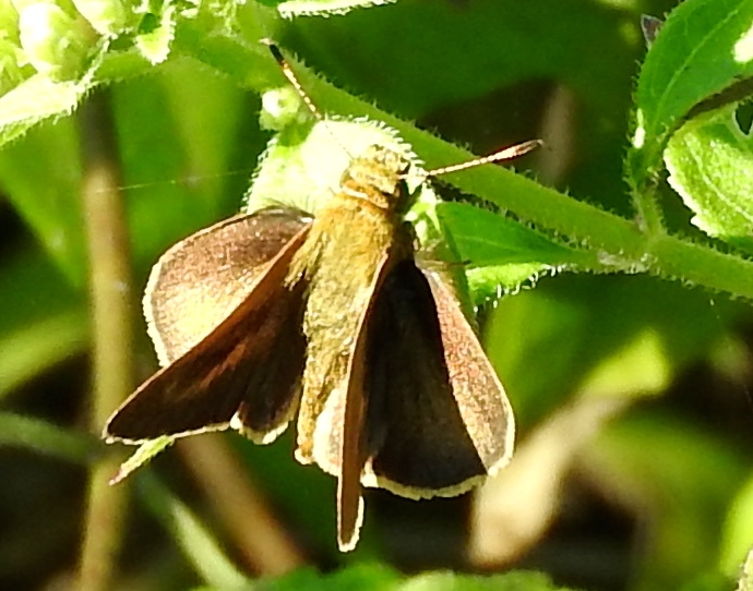 Northern Faceted-Skipper (Synapte pecta). Species of insect.